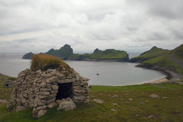 St Kilda cleit. There are more than 1000 of these cleits on St Kilda. They were used for storage of seabirds and crops. They are usually to be found in exposed places where the produce could be kept cool by prevailing winds.